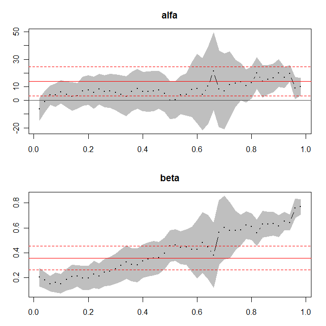 quantile regression coefficients